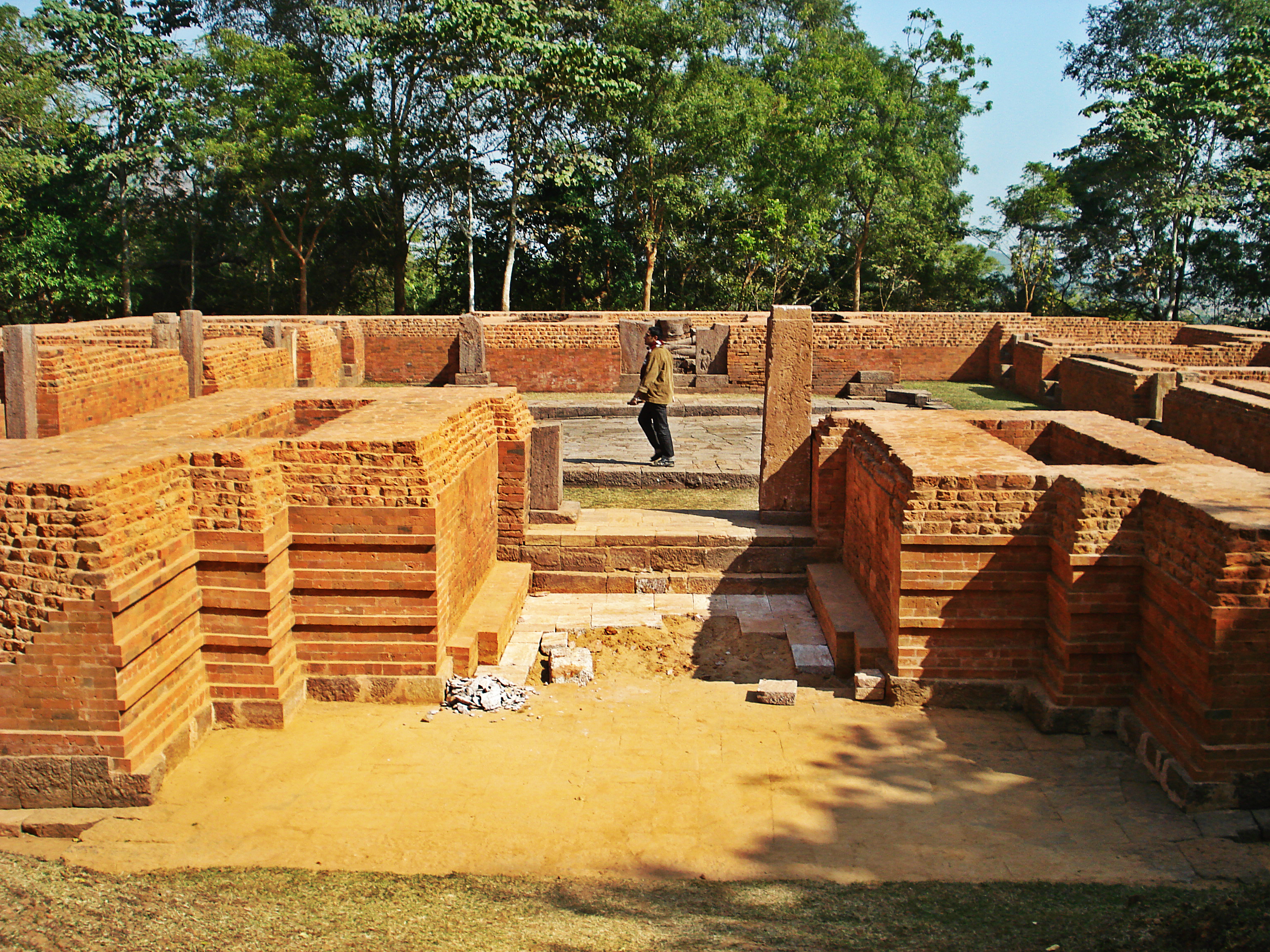 Living quarters of the Bhikshus